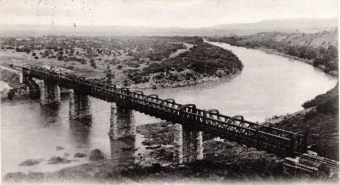 Photo of the railway bridge taken from Fort Wylie (northern bank of the Tugela). This photo taken from a postcard; the printed text "Railway Bridge - Colenso" and the handwritten text "Marshmead - Feb 1st 1907" have been cropped from the original image